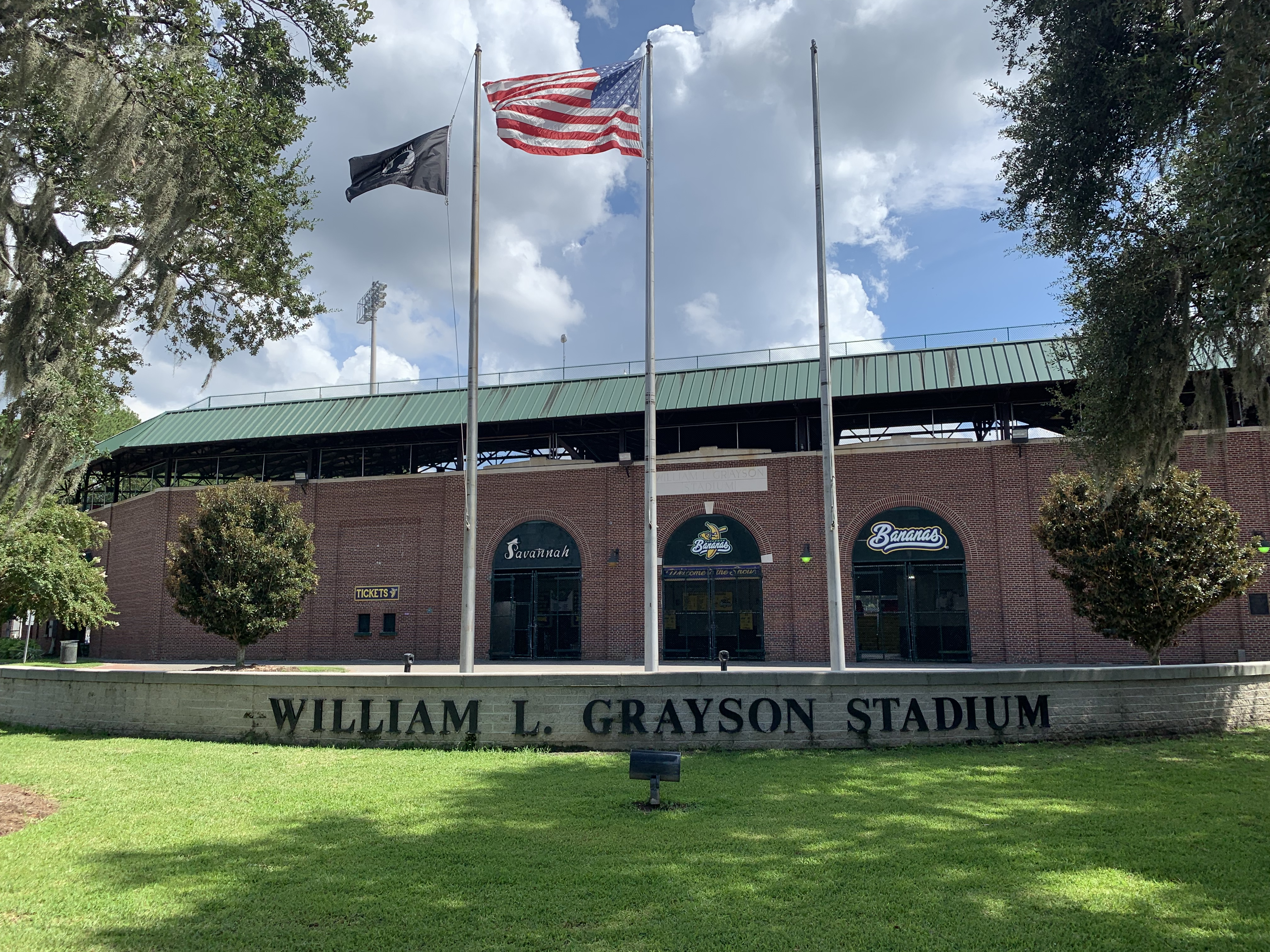 Home of the Savannah Bananas